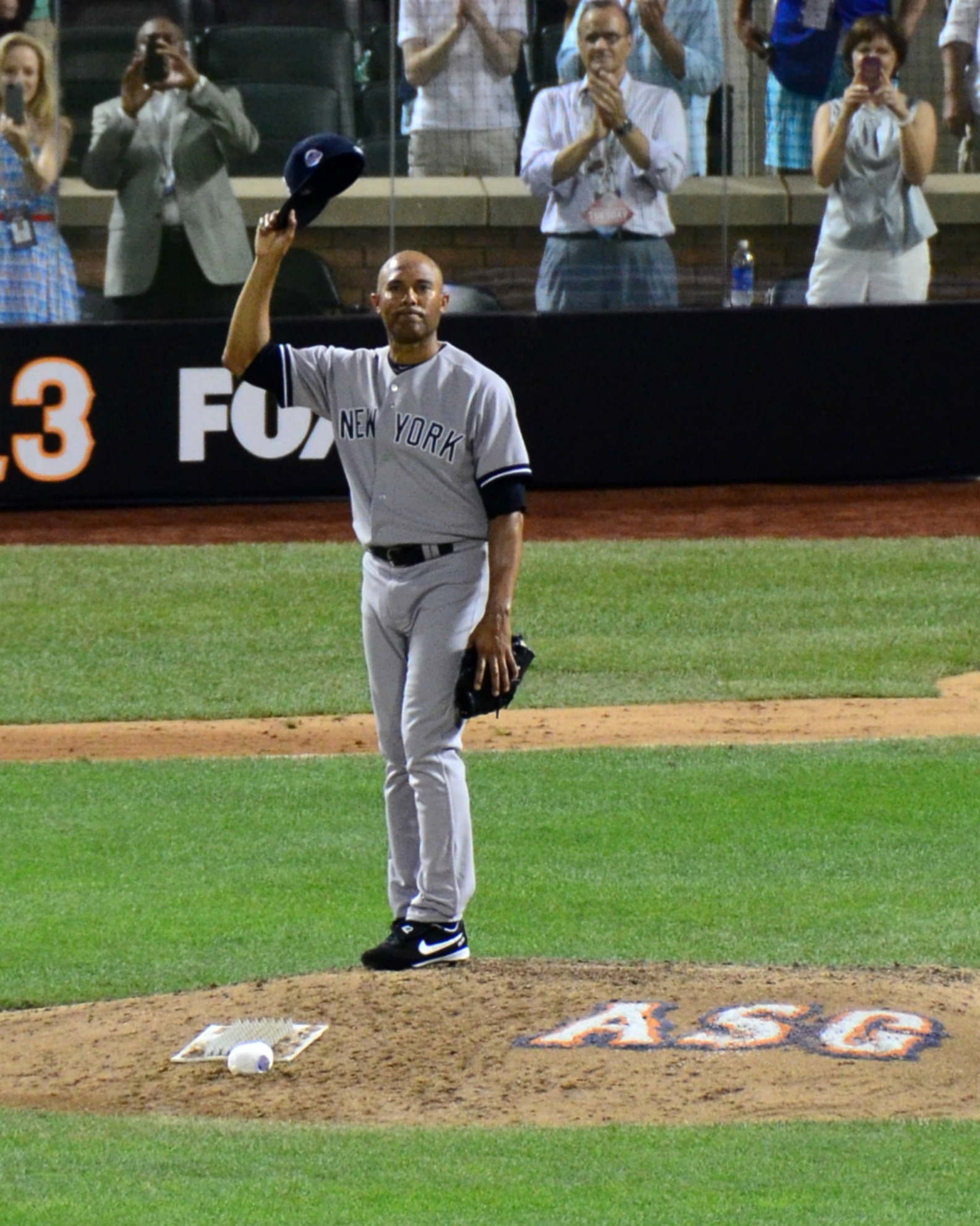 During his final All-Star appearance, Mariano Rivera recognizes a standing ovation from fans and fellow players at the 2013 MLB All-Star Game at Citi Field in New York. Rivera's former manager Joe Torre is visible in the stands (top, second from right).